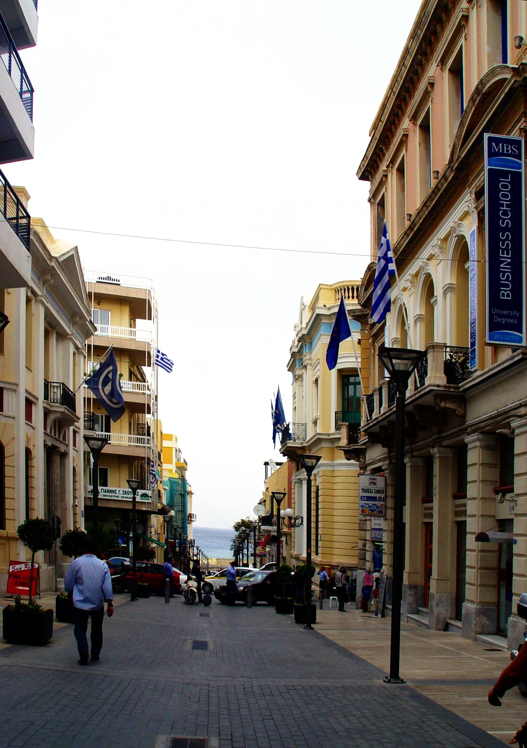 A street in the town of Herakleion in Crete, Greece; at right, the building of the Manchester Business School in Crete.